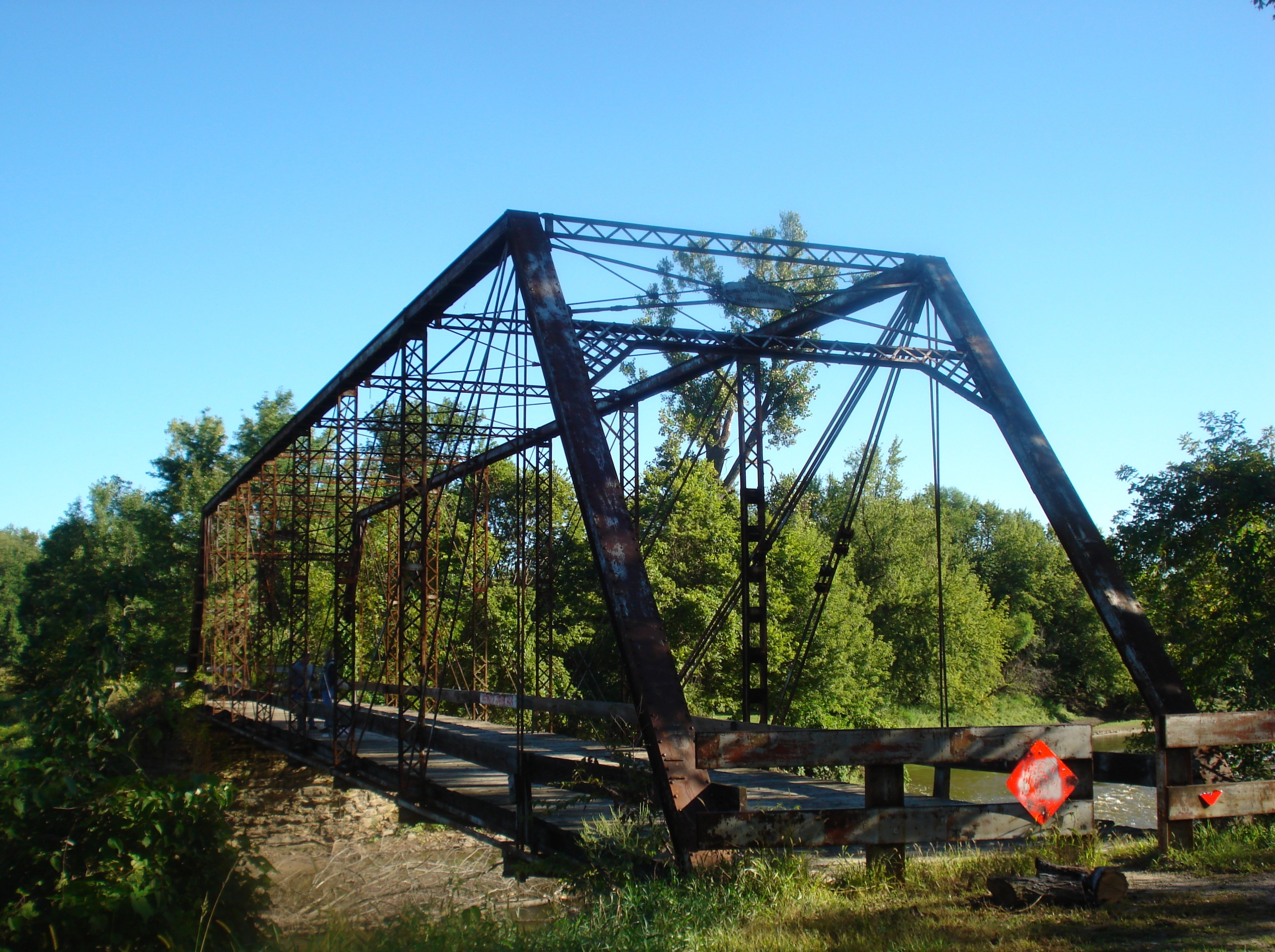 Historic Quarry Bridge located at Three Bridges County Park near Quarry, Iowa.